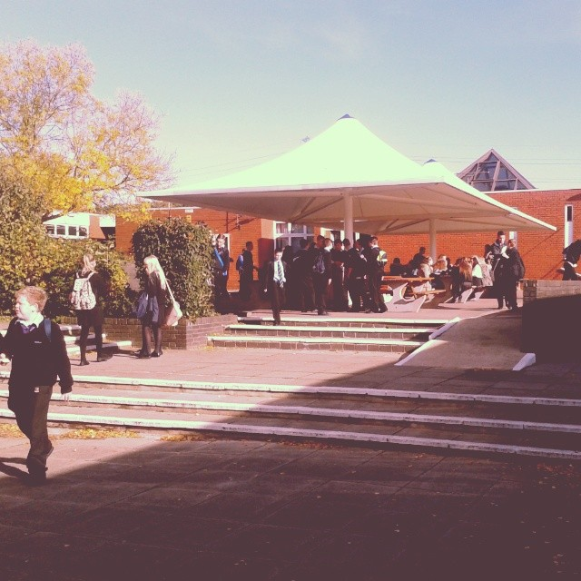 An image from the inside of Manshead Upper School